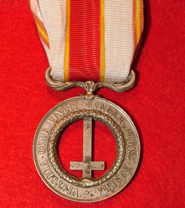 The medal of Castelfidardo, the Risorgimento Museum Castelfidardo